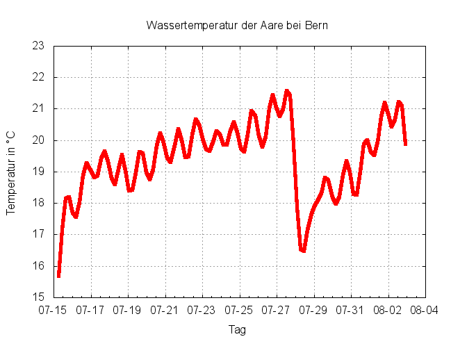 Aare Temerature July/August 2013 Source (data)